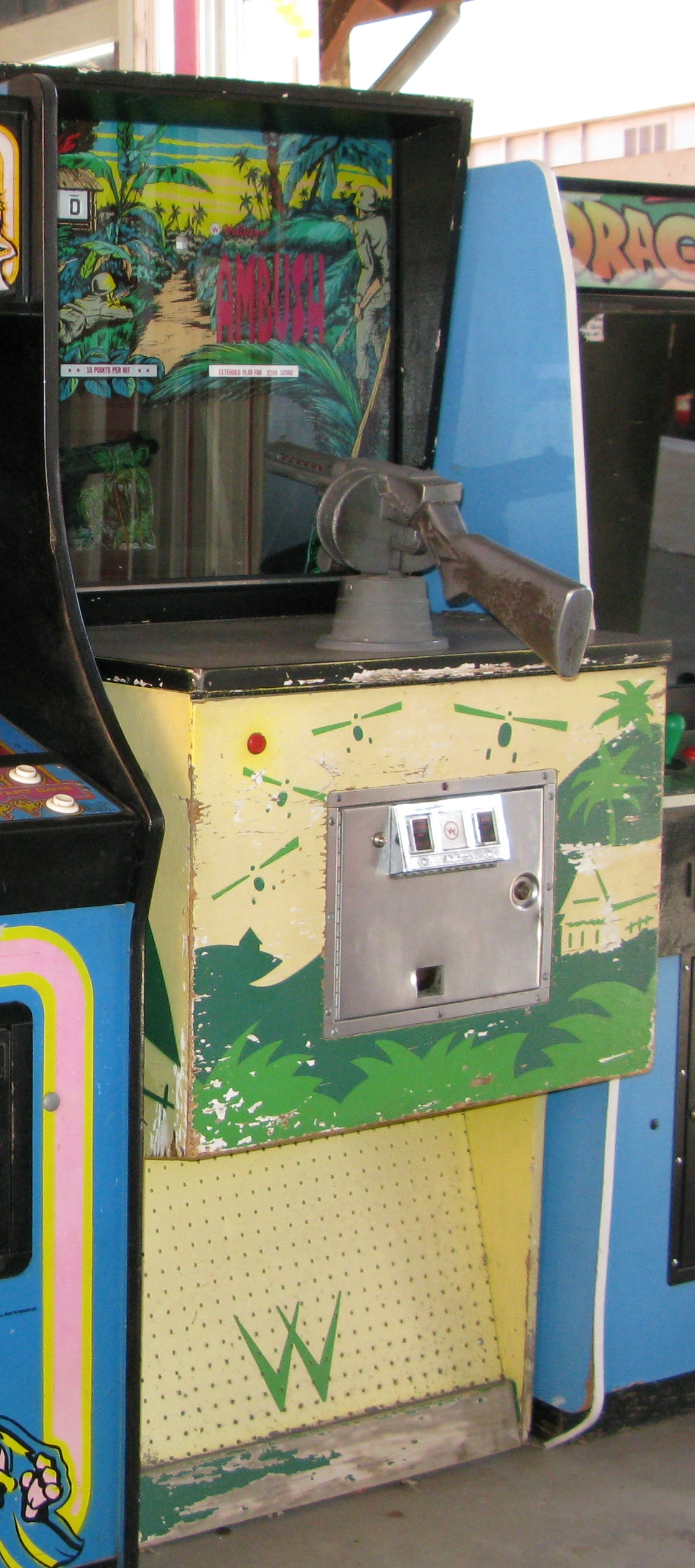 Arcade cabinet of Ambush (Williams 01/1973) with positional gun